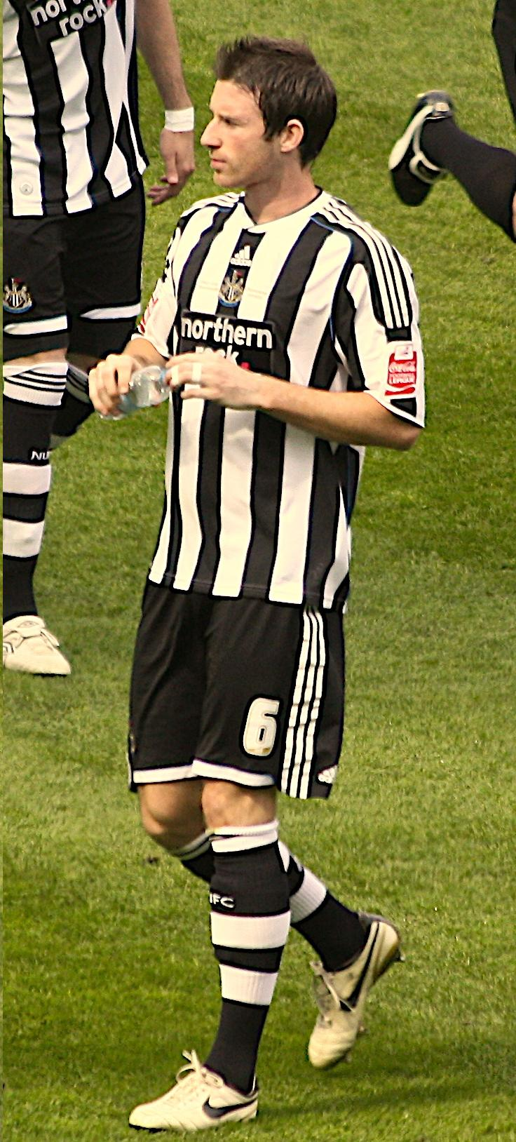 Mike Williamson against Ipswich Town